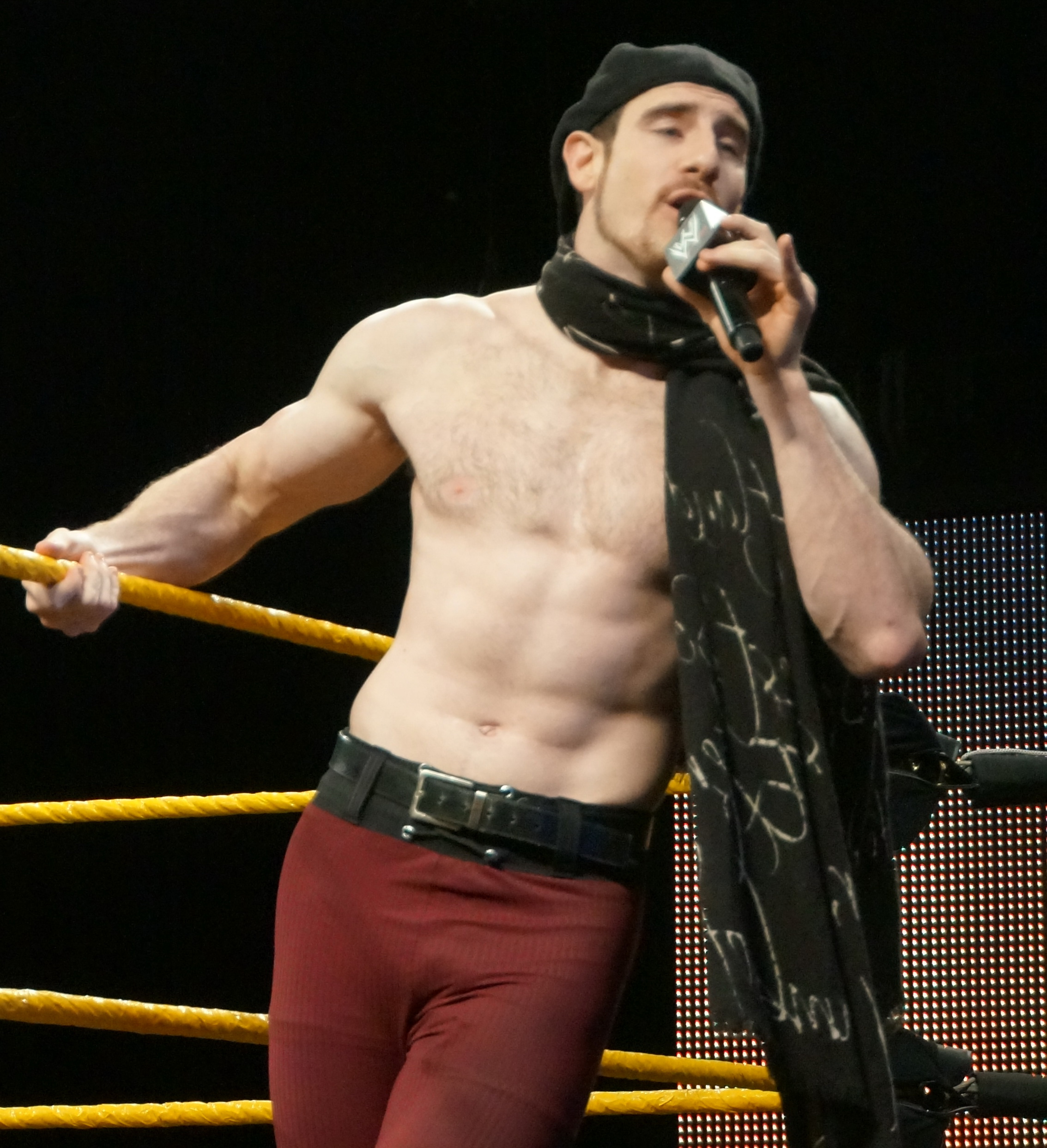 Aiden English serenades the audience before wrestling an exhibition match for NXT at WWE Axxess. Originally taken 4/3/14, cropped for focus.